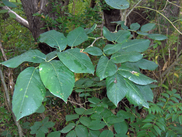 Found in Everglades National Park